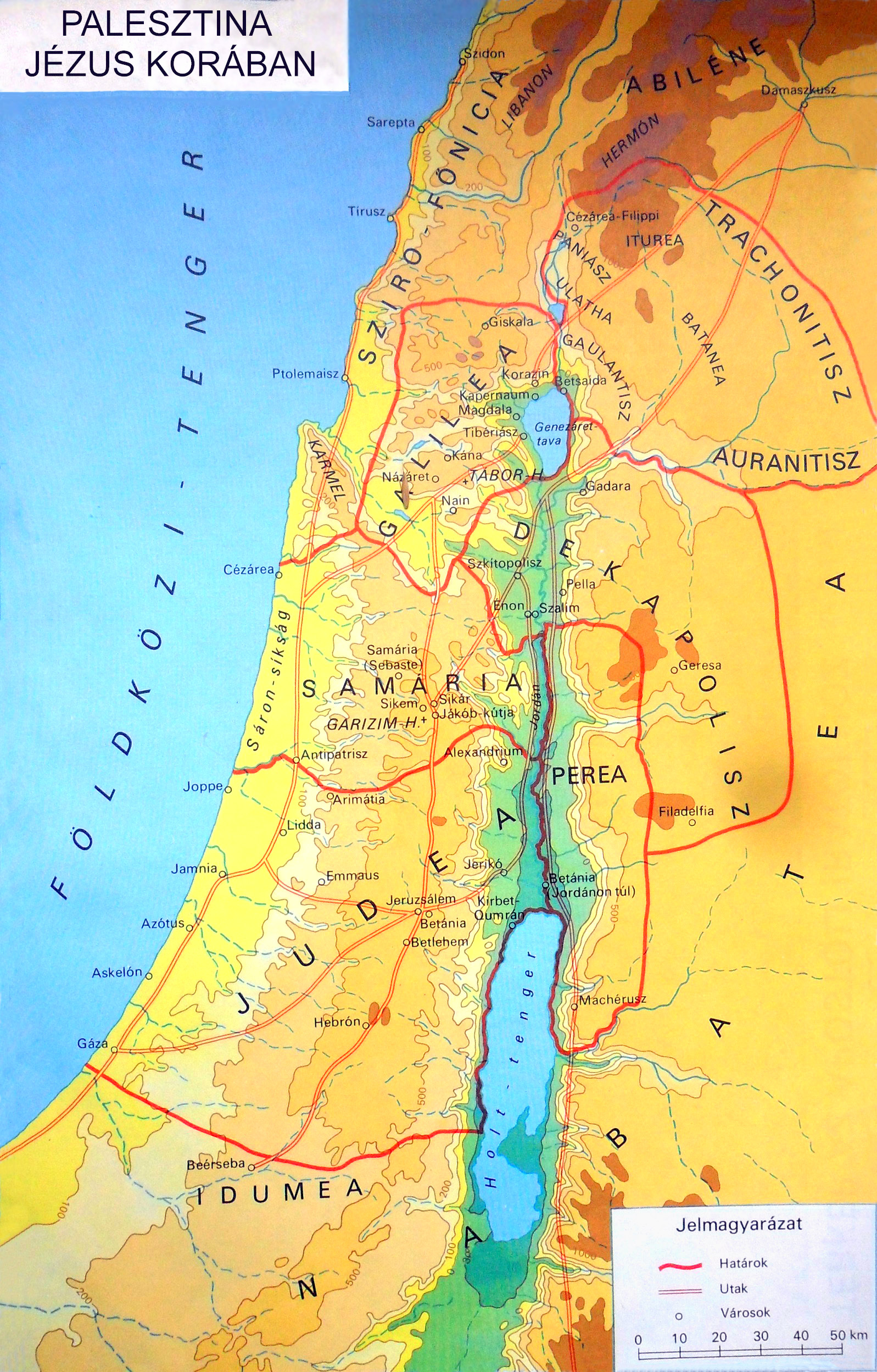 Palestine at the time of Jesus